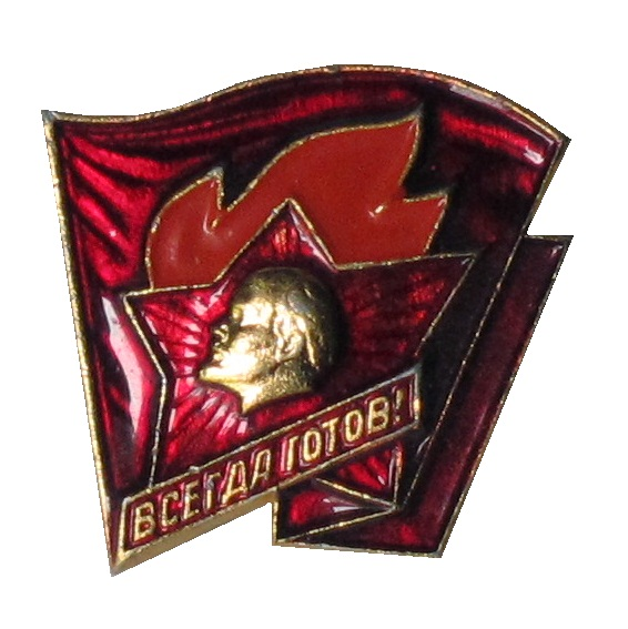 Badge Senior pioneer